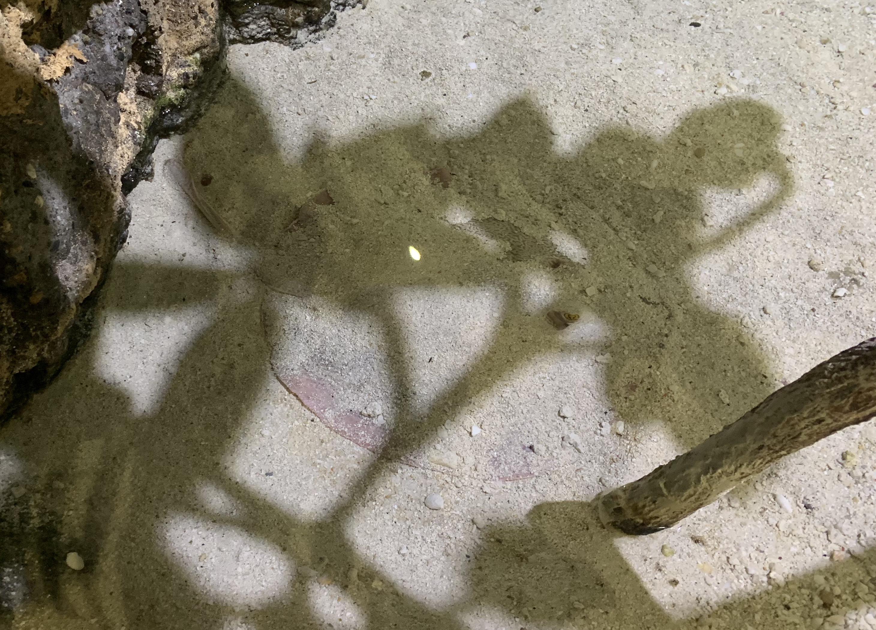 A Leopard round stingray (Urobatis pardalis) resting under a layer of sand at the Point Defiance Zoo and Aquarium’s South Pacific Aquarium in Tacoma, Washington. The Aquarium lists it as a Bullseye round stingray (Urobatis concentricus).